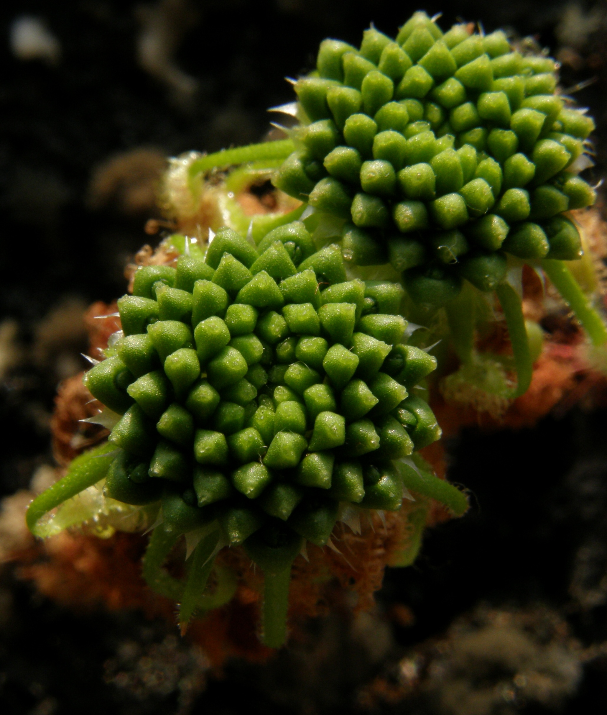 Drosera scorpioides